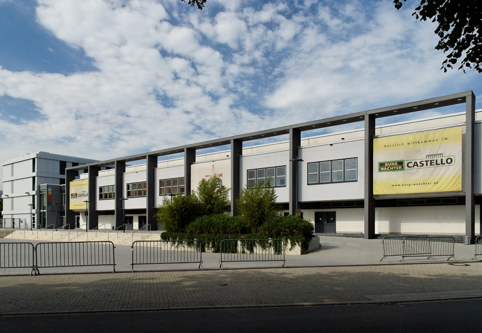 Burg-Wächter Castello in Düsseldorf-Reisholz, Germany